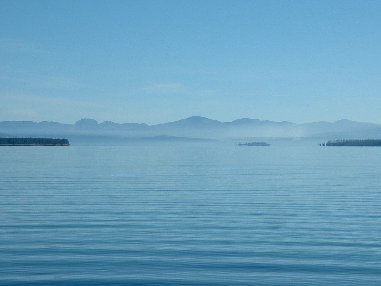 Yellowstone Lake on an autumn morning